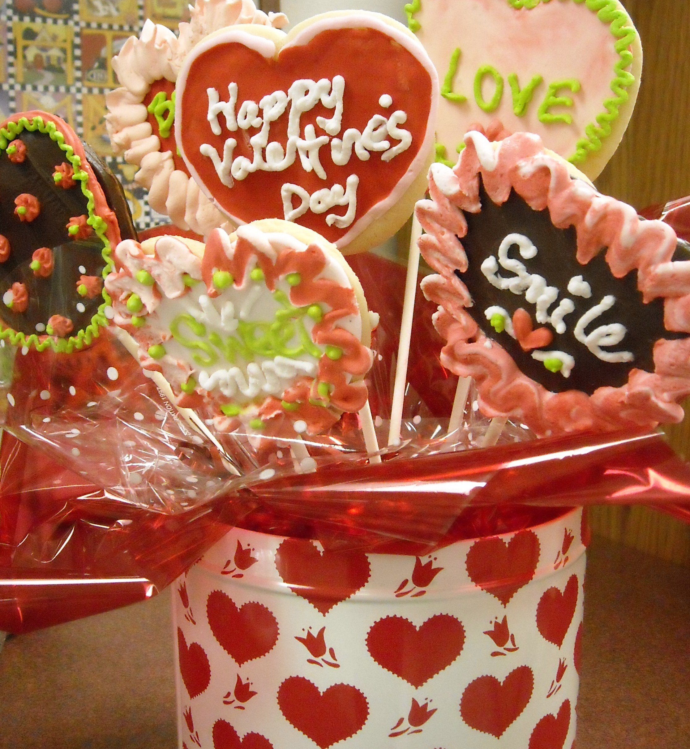 An array of Valentine's Day-connotated candy decor.